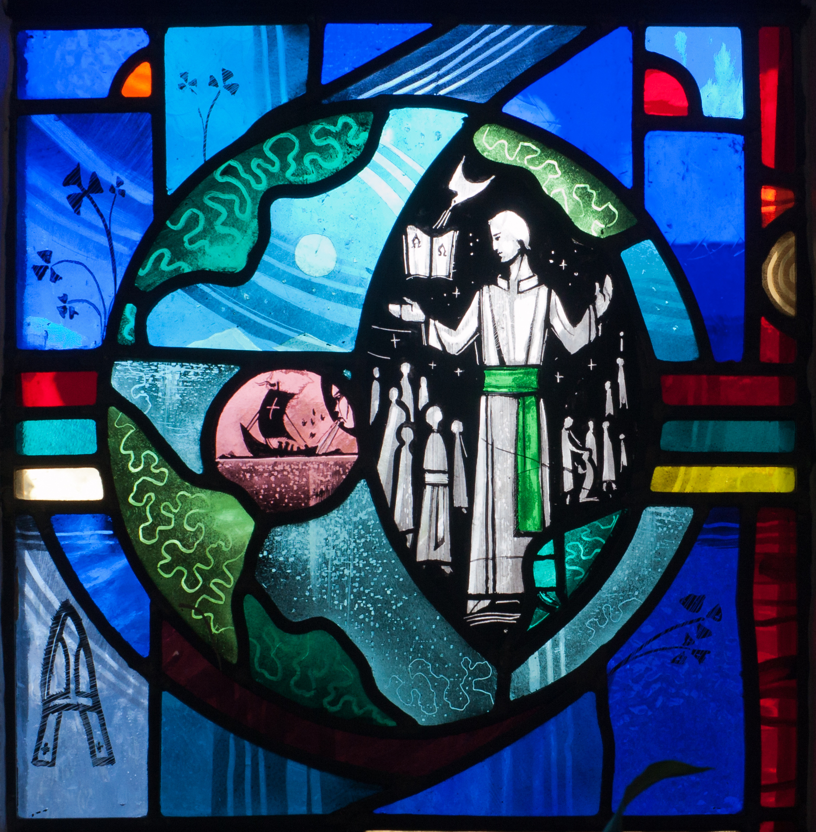 Detail of the right light of the stained glass window in the north wall of the north transept created by George Walsh, depicting a teaching Patrician Brother, looking into the Bible, inspirited by the Holy Spirit. George Walsh (1939–) Alternative names George William WalshDescriptionIrish stained-glass artistDate of birth 1939 Location of birth Dublin Work location Dublin Authority control : Q45315802 creator QS:P170,Q45315802